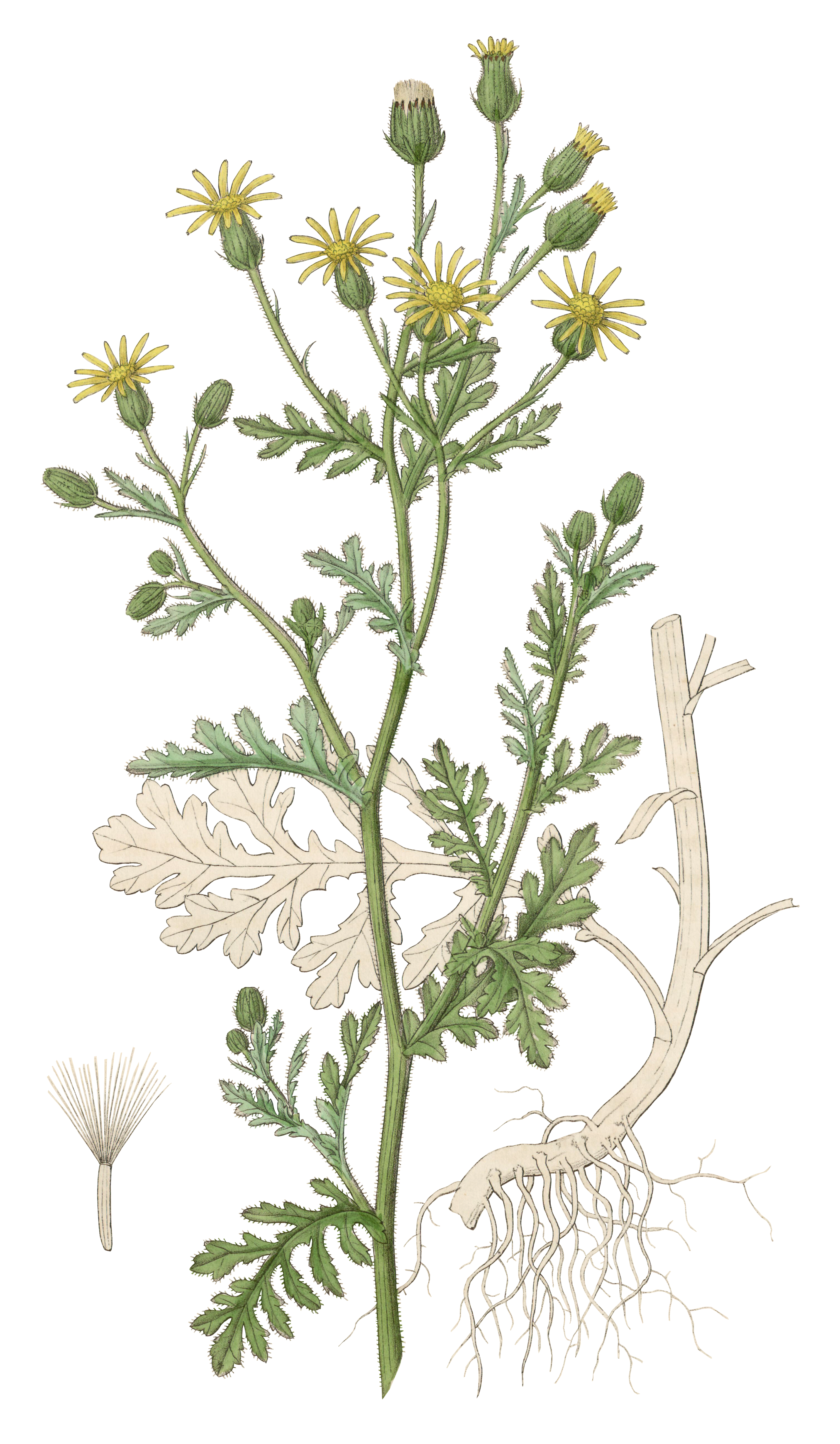 Illustration of Senecio viscosus Linné